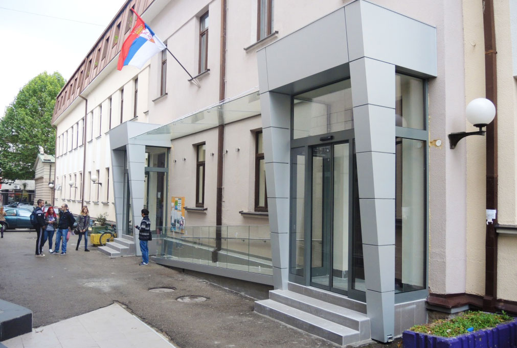 VIPOS